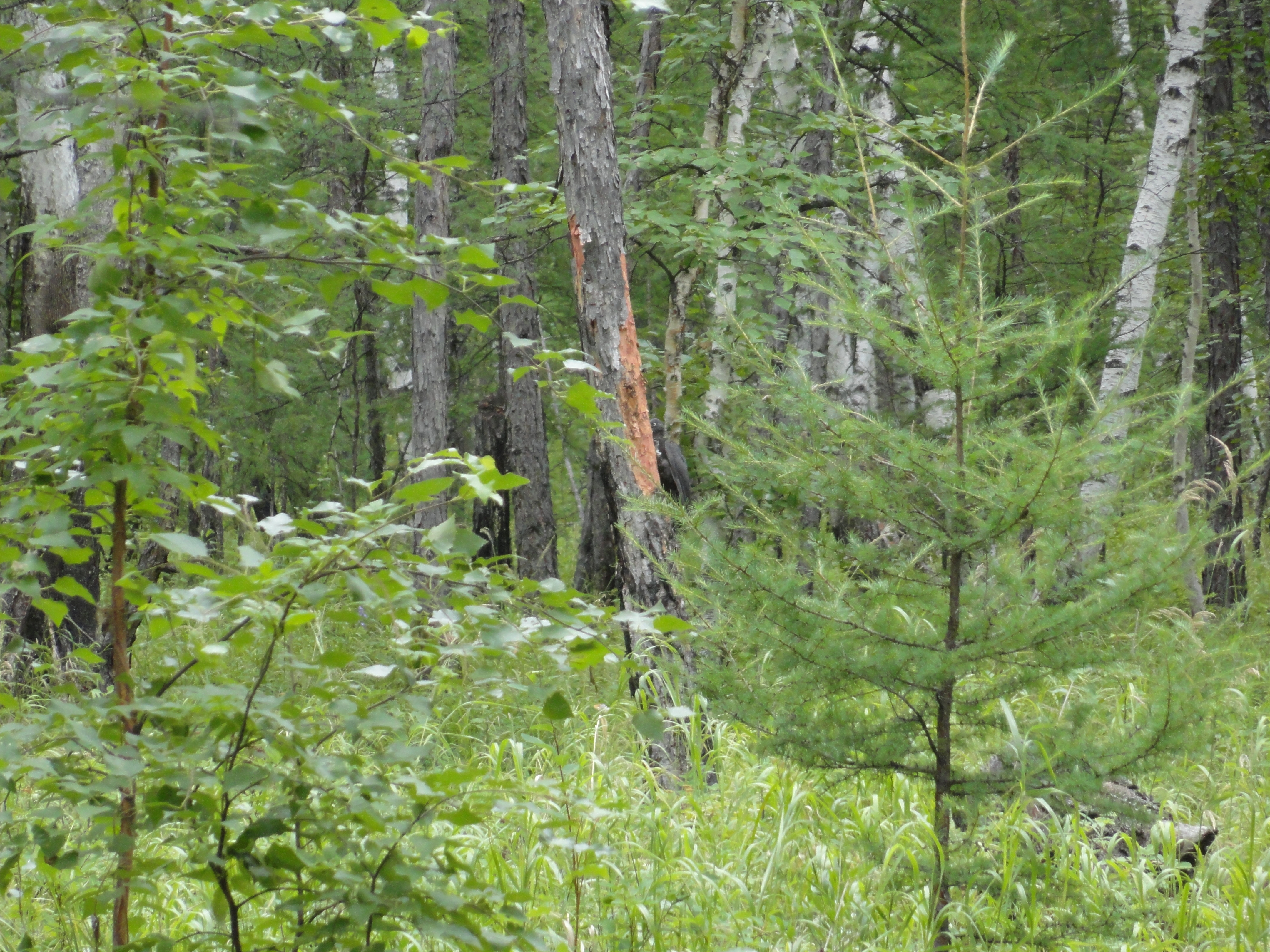 Лес села Укурей